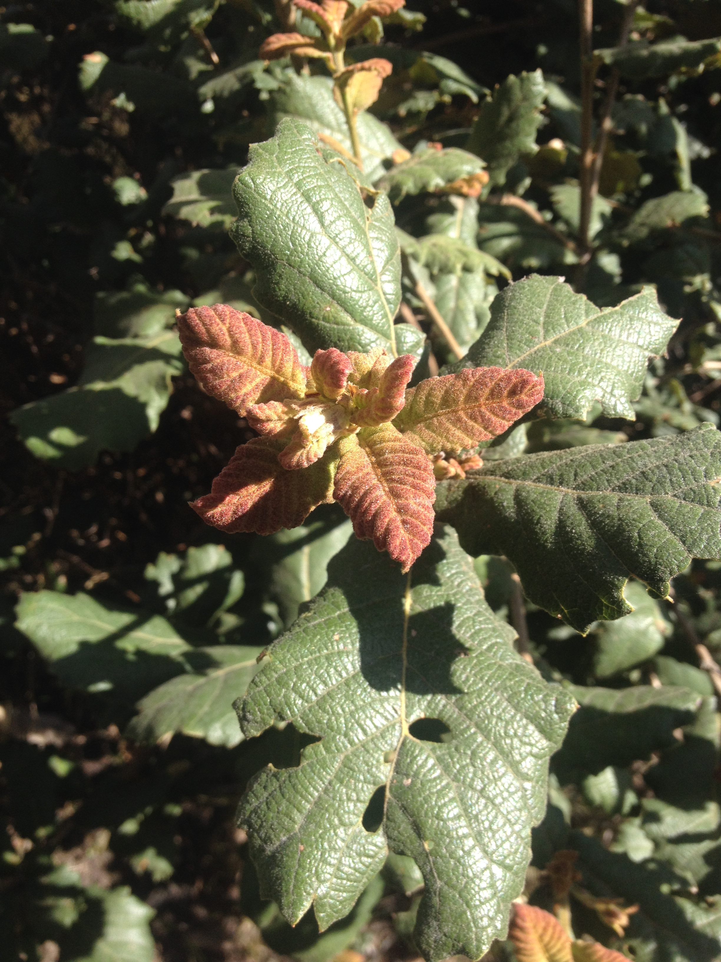 Young leaves of a netleaf oak